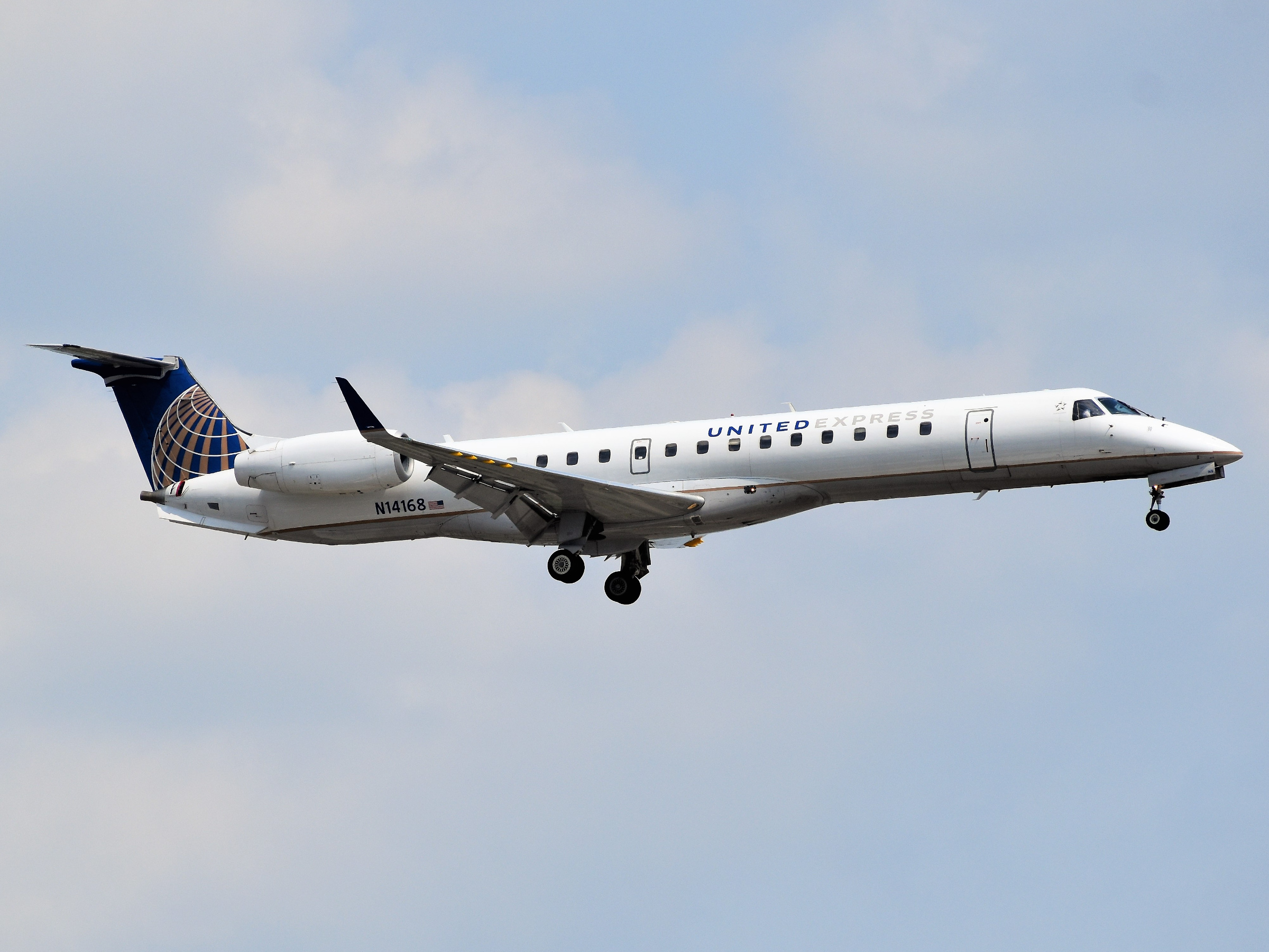 A United Express Embraer ERJ-145XR is approaching Newark Liberty International Airport.